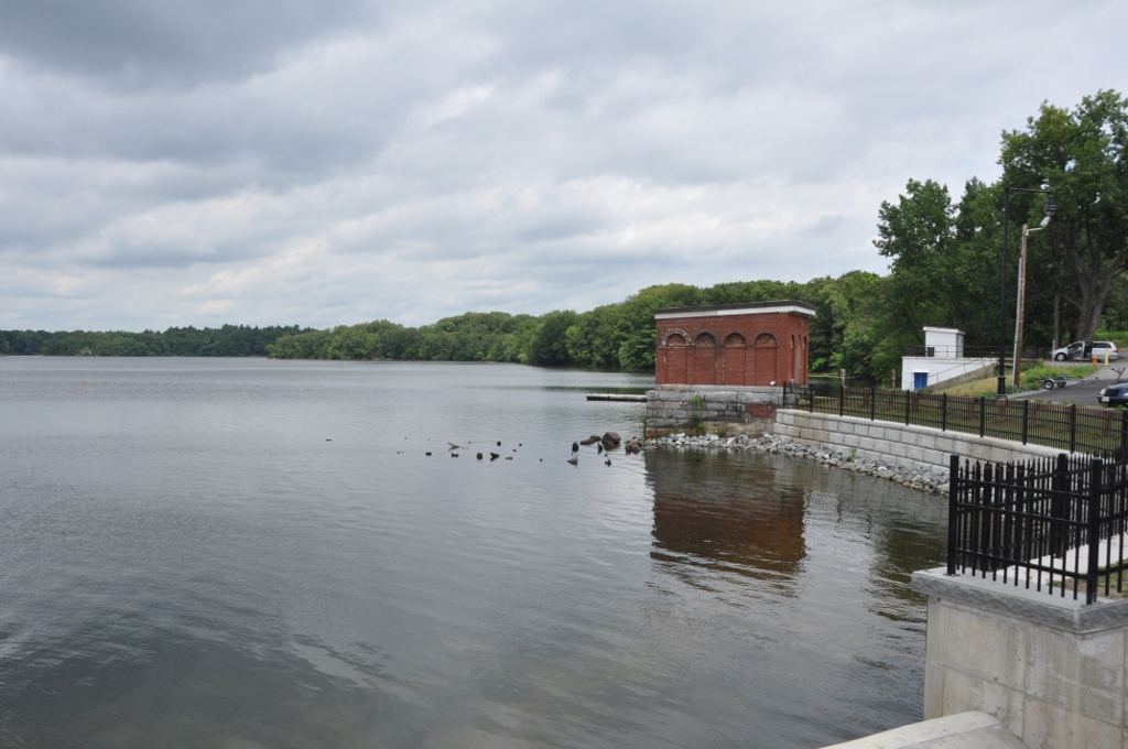 A photograph of the historic Mystic Gatehouse, which controlled the historic Mystic Dam in Winchester, Massachusetts.